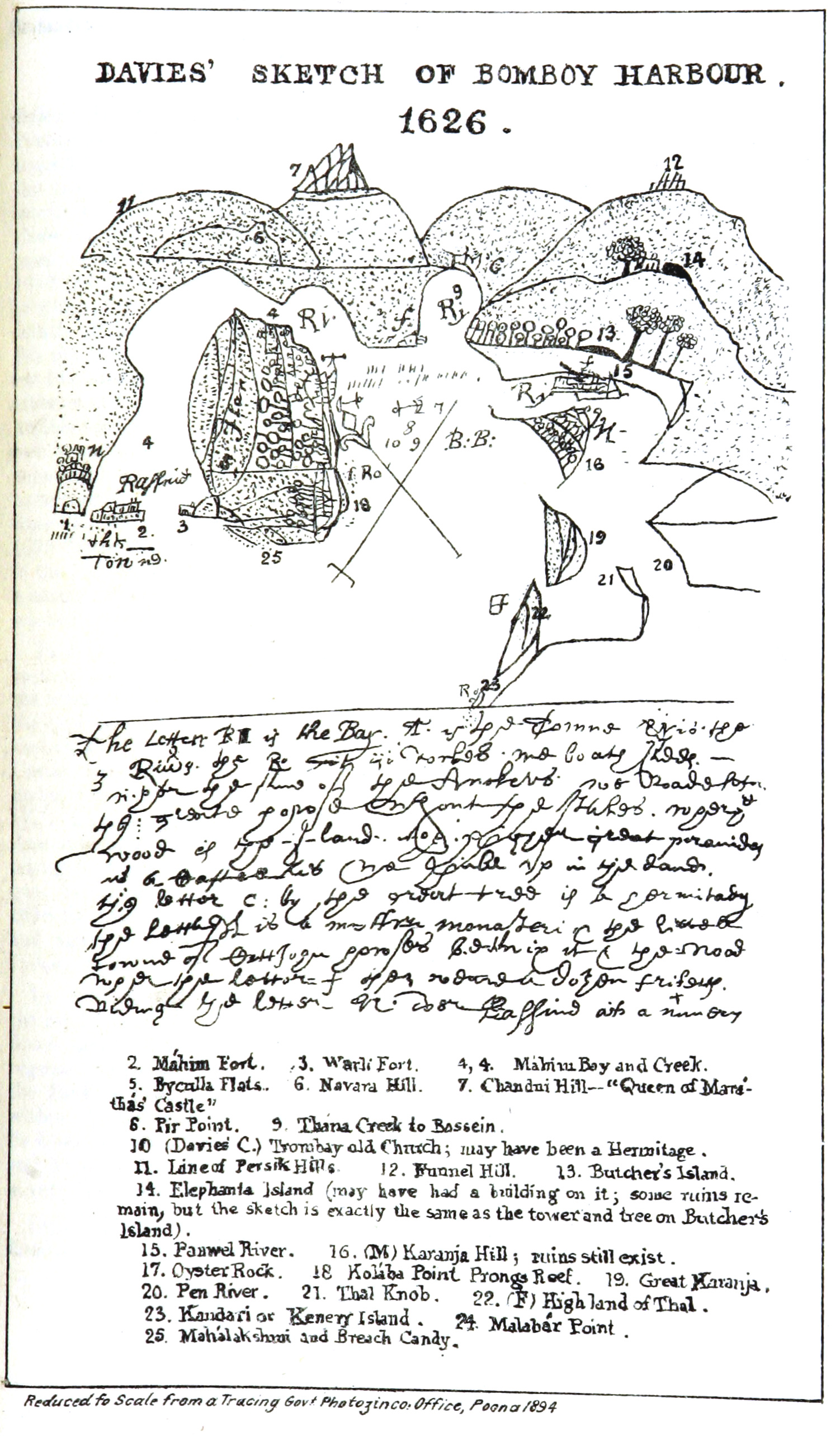 Sketch of Bombay Harbour in 1626